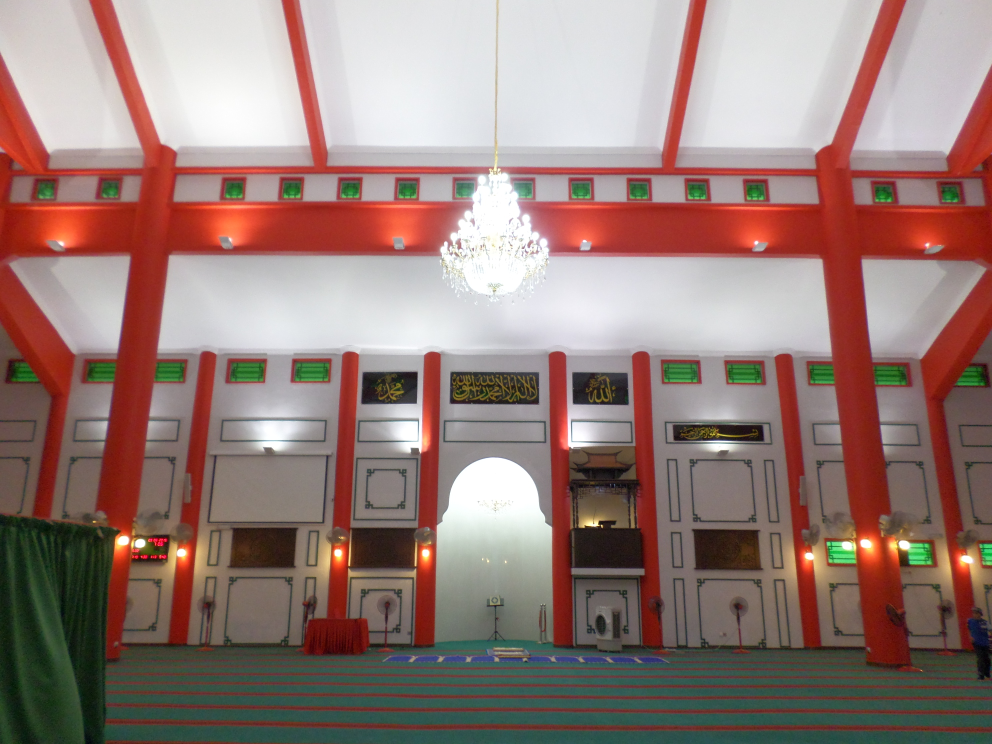 Melaka Chinese Mosque, Krubong, Central Melaka, Melaka, MalaysiaBahasa Melayu: Masjid Cina Negeri Melaka, Krubong, Melaka Tengah, Melaka, Malaysia